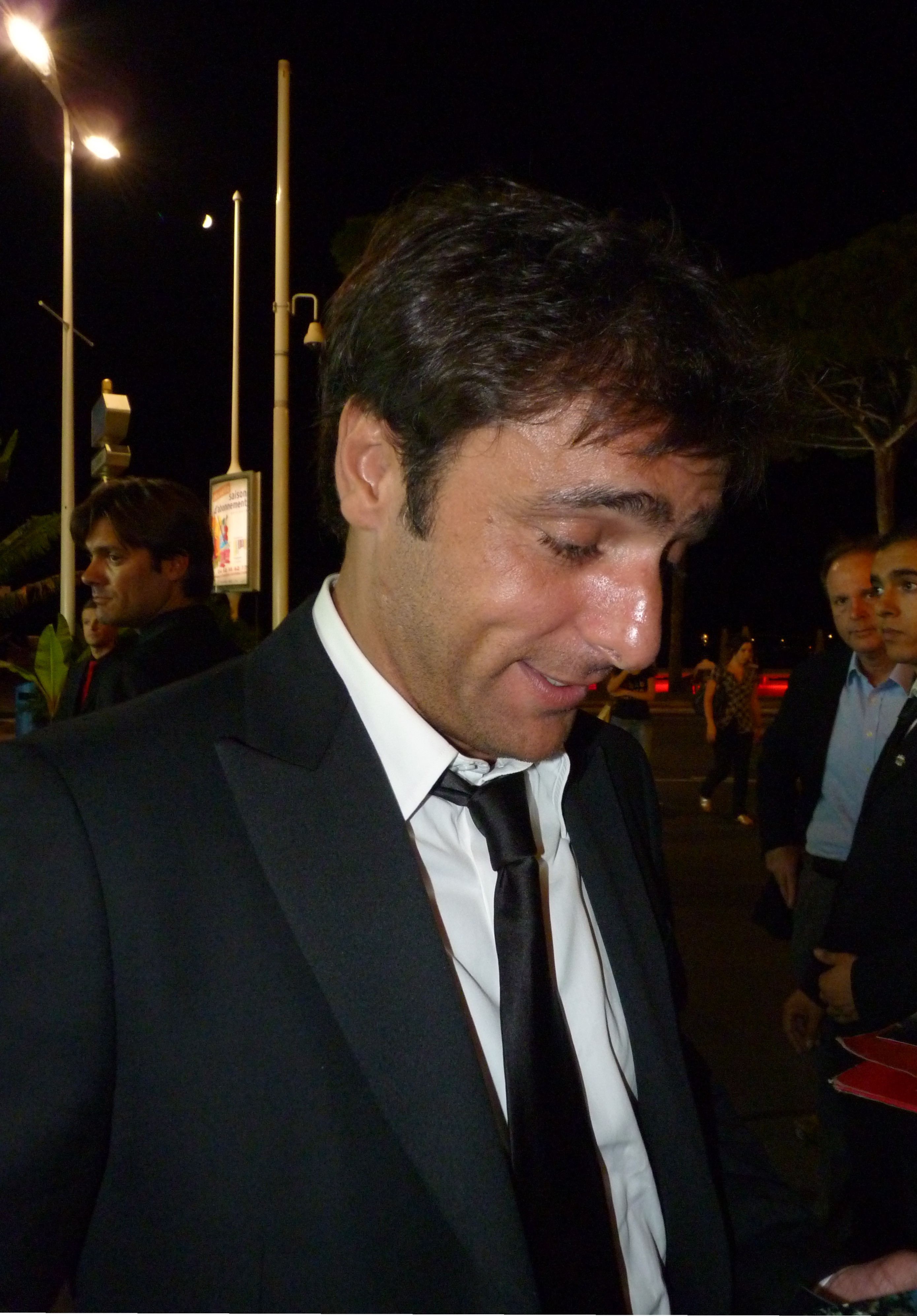 Adriano Giannini at the 2011 MIPCOM, in Cannes.